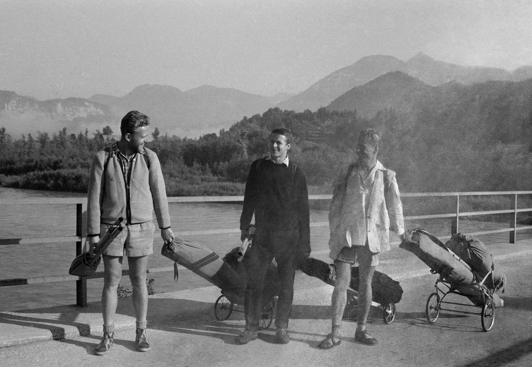 Off to an adventure with boat, gear, clothes and food to last for weeks